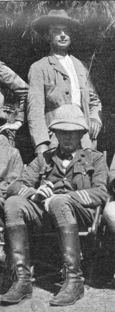 Winston Churchill and Edward Marsh in Africa in 1907.